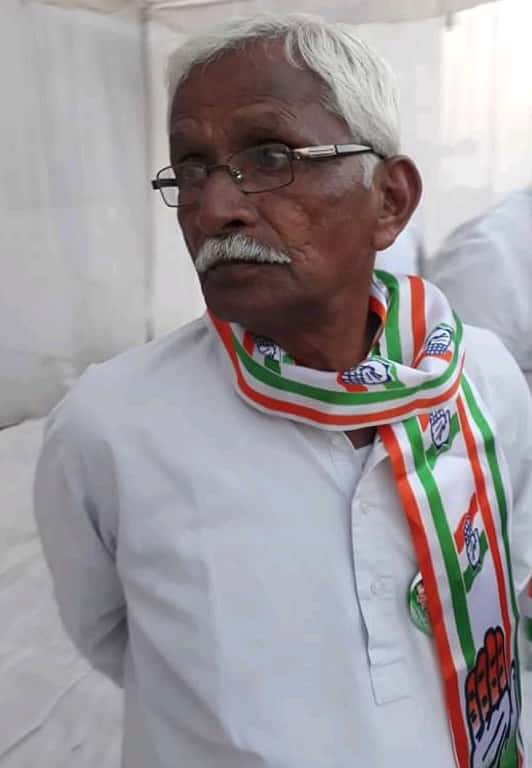 Former Legislator of Lanji consistuency